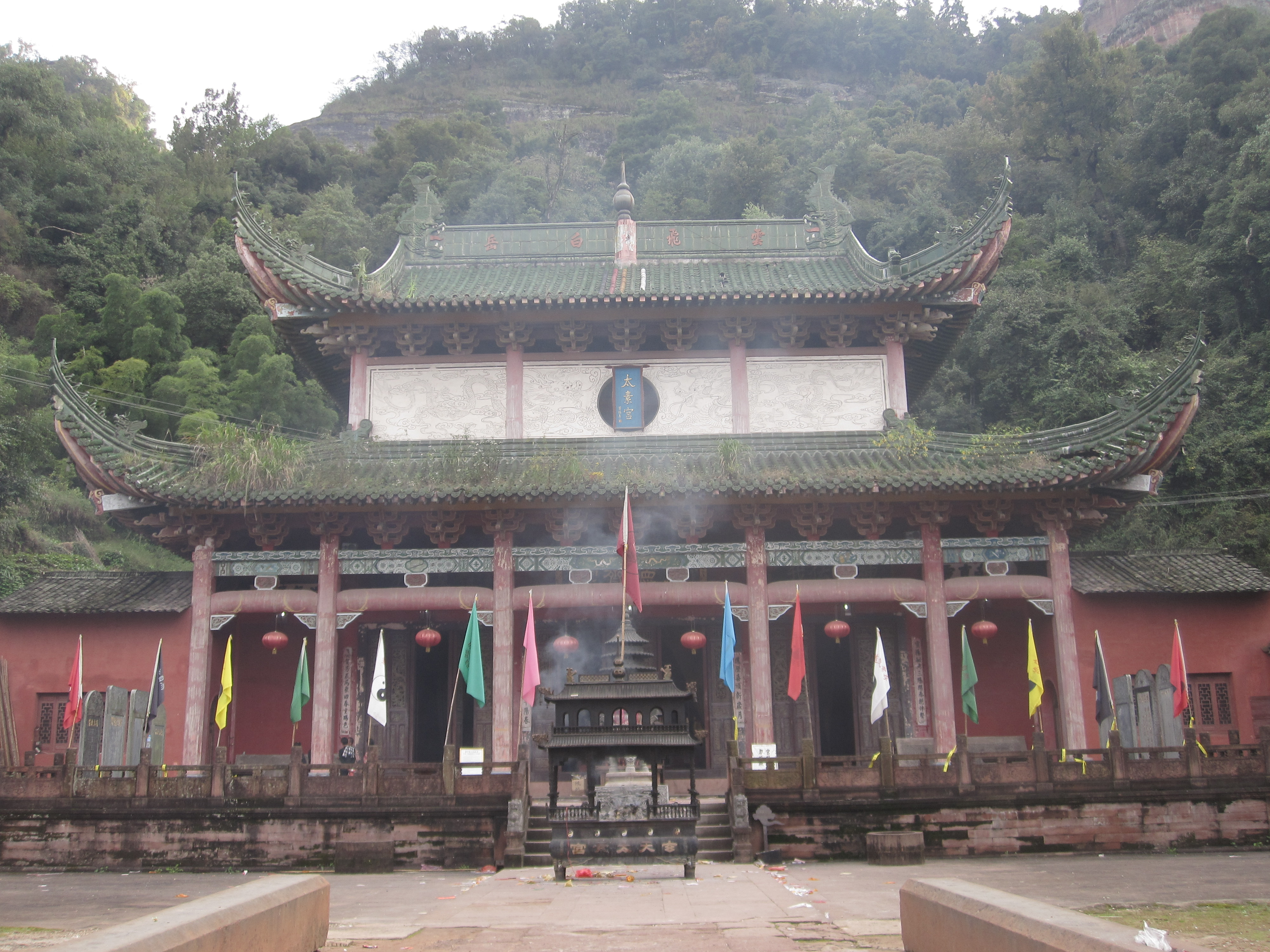 Qiyun Shan Taoist temple